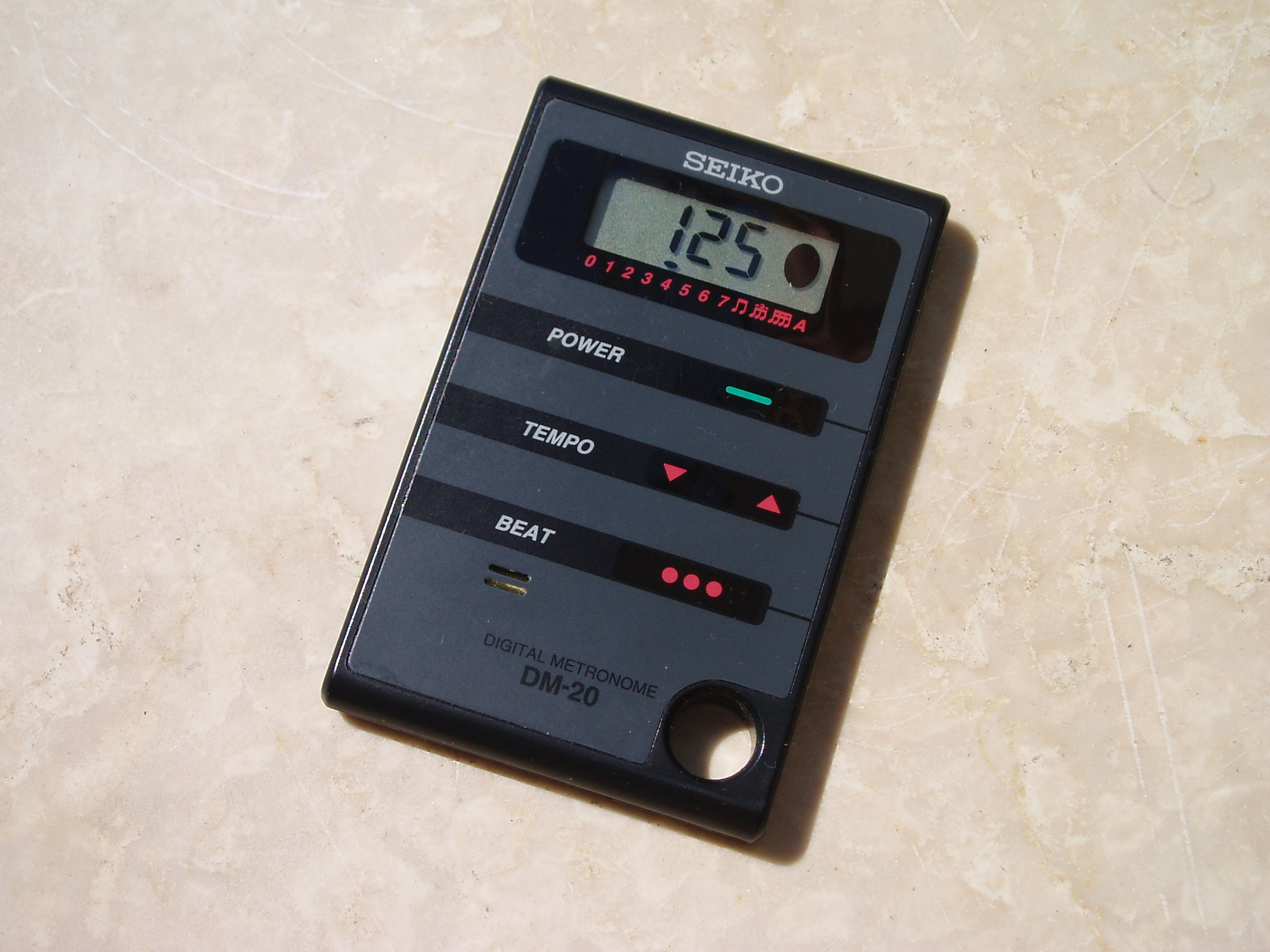 Seiko DM-20 digital metronome